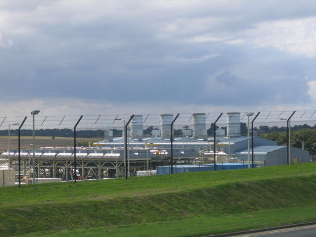 Gas compressor station, Bacton. Just across the main road from the Bacton Gas Terminal is the compressor station. The gas platforms in the North Sea are just visible from the coast around here but apparently it also receives gas via Belgium.